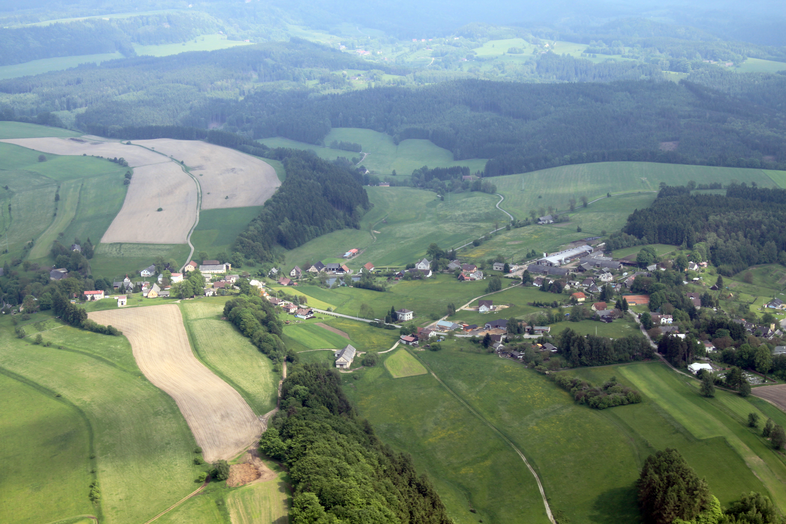 Village Vysoká Srbská near of town Náchod from air, eastern Bohemia, Czech Republic